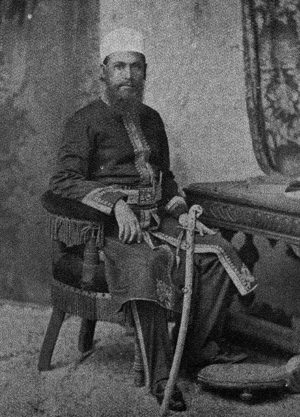 Server Jung (= Server ul-Mulk), tutor (1874-93) to Salar Jang II. and Asaf Jah VI. of Hyderabad state.